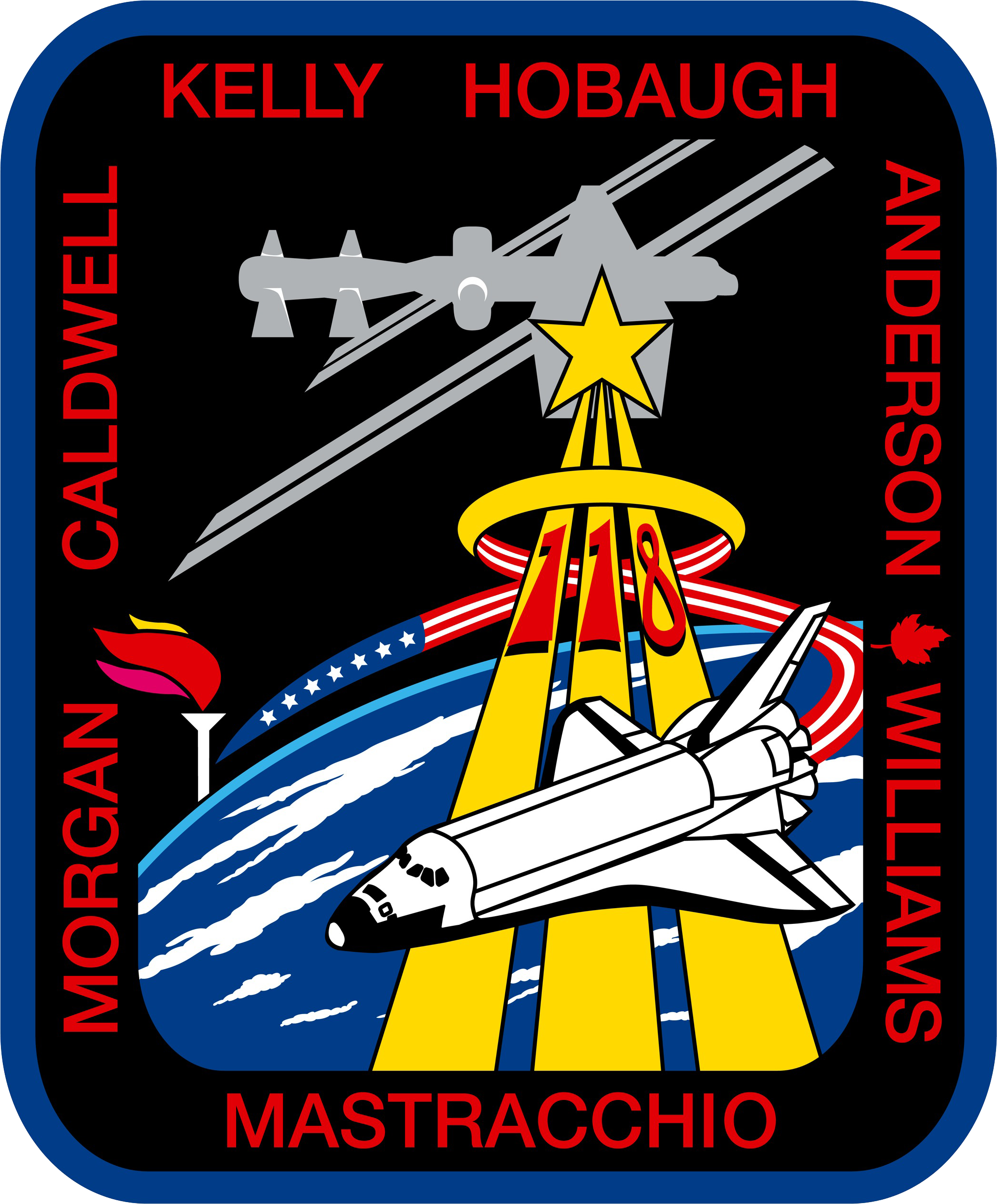 STS118-S-001 (Oct. 2006) --- The STS-118 patch represents Space Shuttle Endeavour on its mission to help complete the assembly of the International Space Station (ISS), and symbolizes the pursuit of knowledge through space exploration. The flight will accomplish its ISS 13A.1 assembly tasks through a series of spacewalks, robotic operations, logistics transfers, and the exchange of one of the three long-duration expedition crew members. On the patch, the top of the gold astronaut symbol overlays the starboard S-5 truss segment, highlighting its installation during the mission. The flame of knowledge represents the importance of education, and honors teachers and students everywhere. The seven white stars and the red maple leaf signify the American and Canadian crew members, respectively, flying aboard Endeavour.